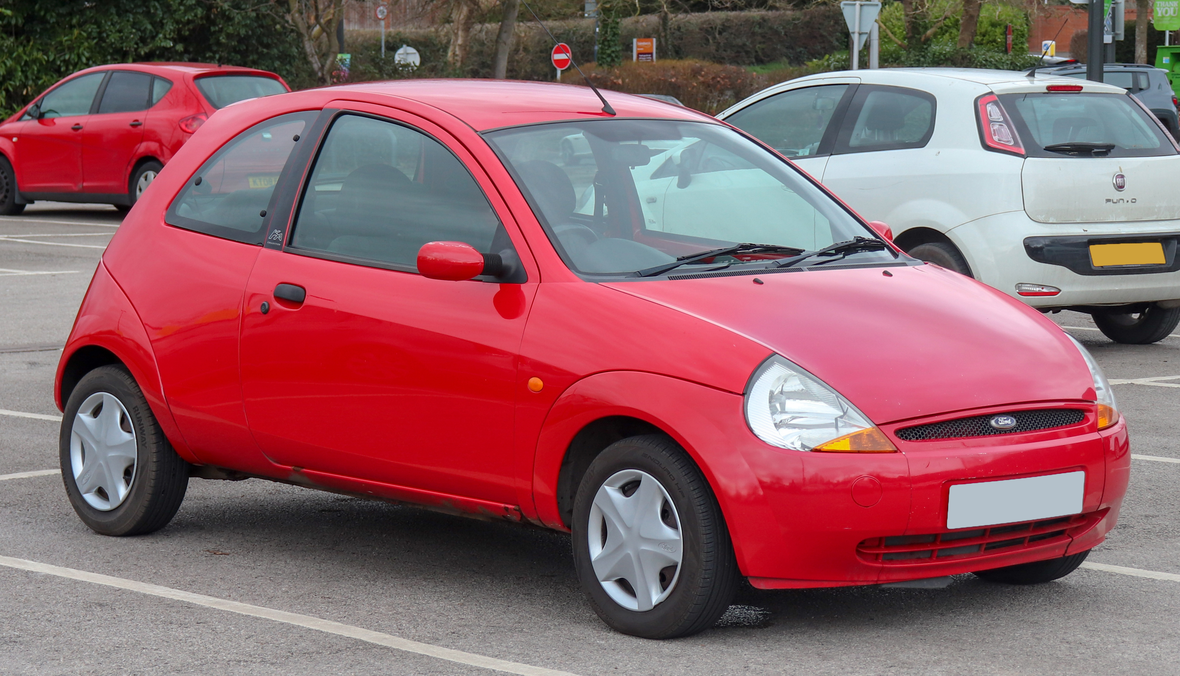 2005 Ford KA Collection 1.3 Front Taken in Warwick